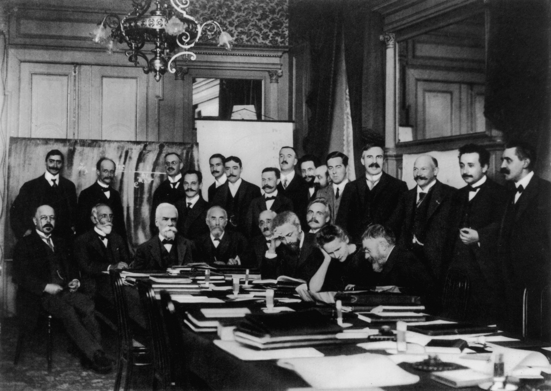 Photograph of participants of the first Solvay Conference, in 1911, Brussels, Belgium. Seated (L-R): Walther Nernst, Marcel Brillouin, Ernest Solvay (he wasn't present when the above group photo was taken; his portrait was crudely pasted on before the picture was released), Hendrik Lorentz, Emil Warburg, Jean Baptiste Perrin, Wilhelm Wien, Marie Skłodowska-Curie, and Henri Poincaré. Standing (L-R): Robert Goldschmidt, Max Planck, Heinrich Rubens, Arnold Sommerfeld, Frederick Lindemann, Maurice de Broglie, Martin Knudsen, Friedrich Hasenöhrl, Georges Hostelet, Edouard Herzen, James Hopwood Jeans, Ernest Rutherford, Heike Kamerlingh Onnes, Albert Einstein, and Paul Langevin.